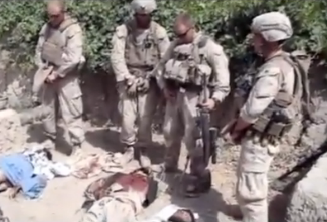 The video shows four men in U.S. Marine combat gear laughing and joking as they urinate on what appear to be dead men somewhere in a rural part of Afghanistan.